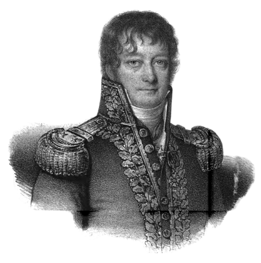 Jean-Marthe-Adrien l'Hermite